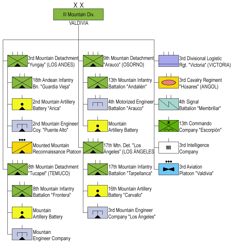 §. Division del Ejercito de Chile